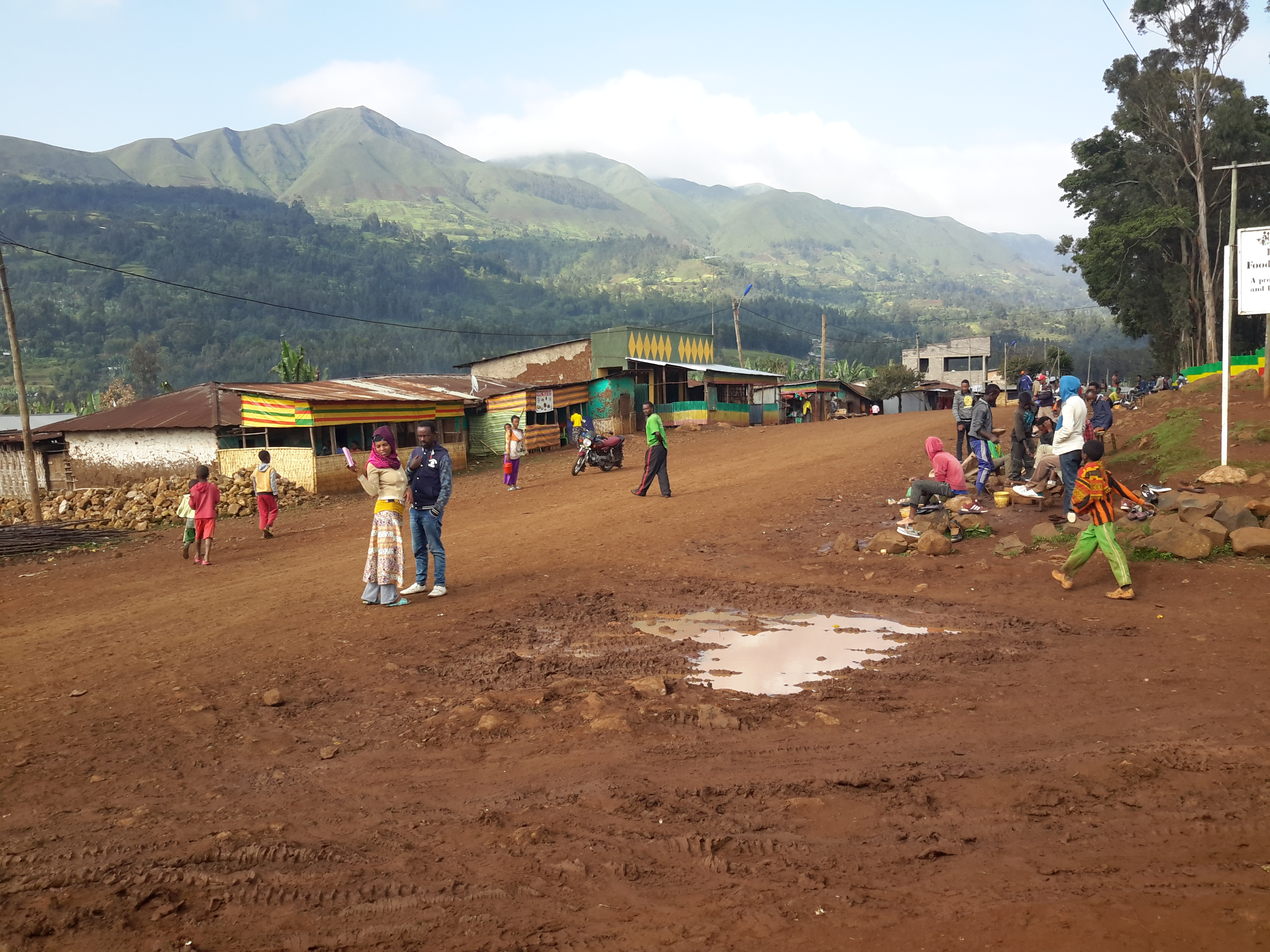 Zada town main road. SNNPRS, Gamo Gofa, Zada Town, Ethiopia This is an image of "African people at work" from Ethiopia